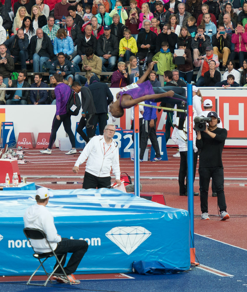 Mutaz Essa Barshim at the Stockholm Olympic Stadium during the Bauhaus Gala (Stockholm Bauhaus Athletics), (2015 IAAF Diamond League) July 30, 2015.